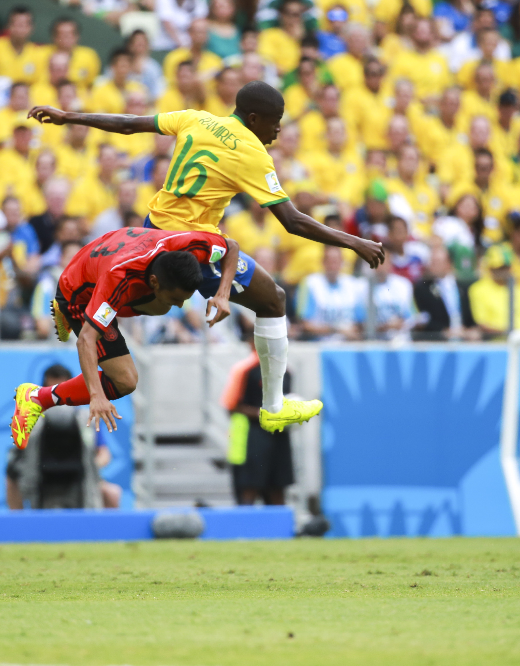 Brazil and Mexico match at the FIFA World Cup 2014-06-17